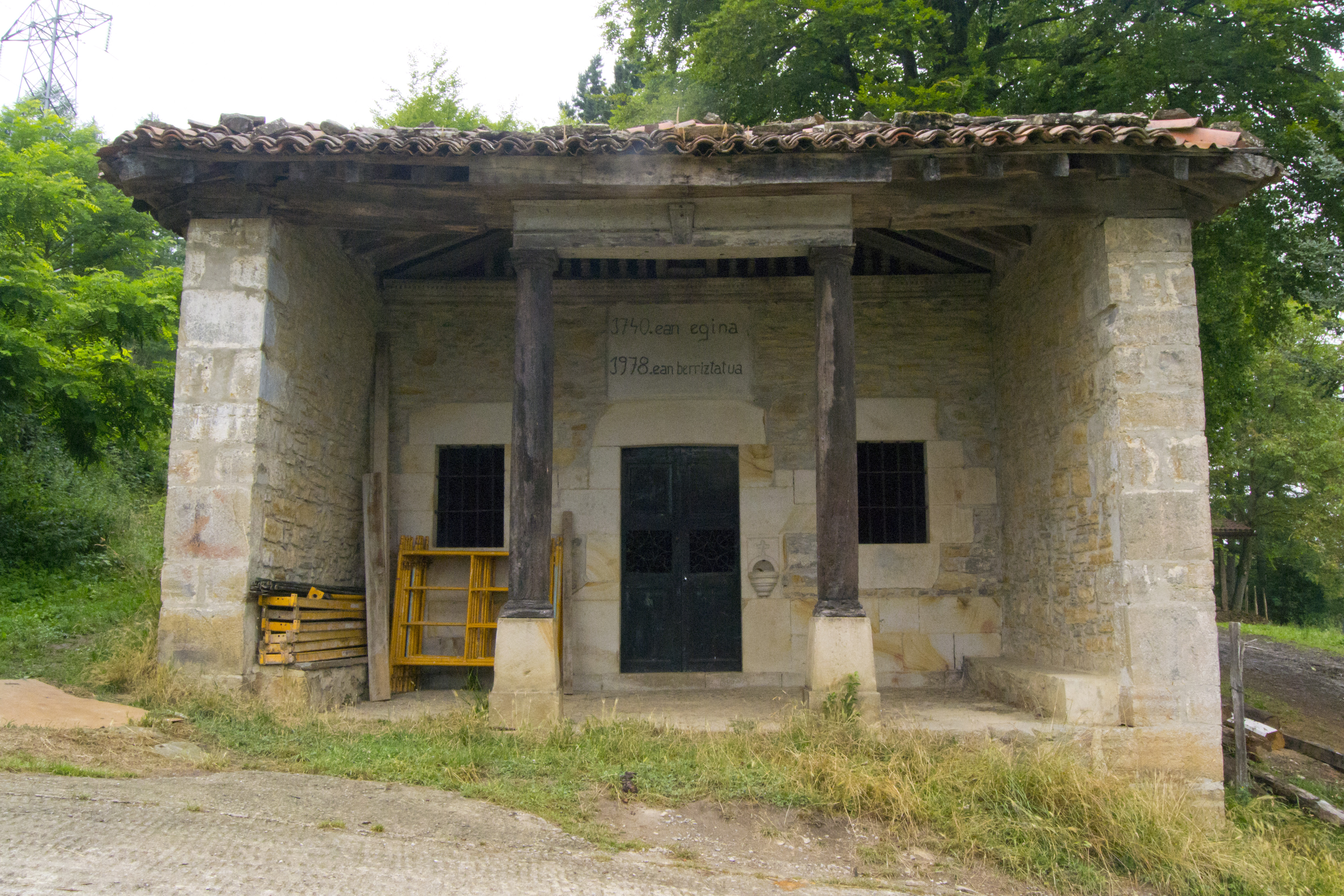 San Salbatore hermitage. Elgeta, Gipuzkoa. Basque Country.